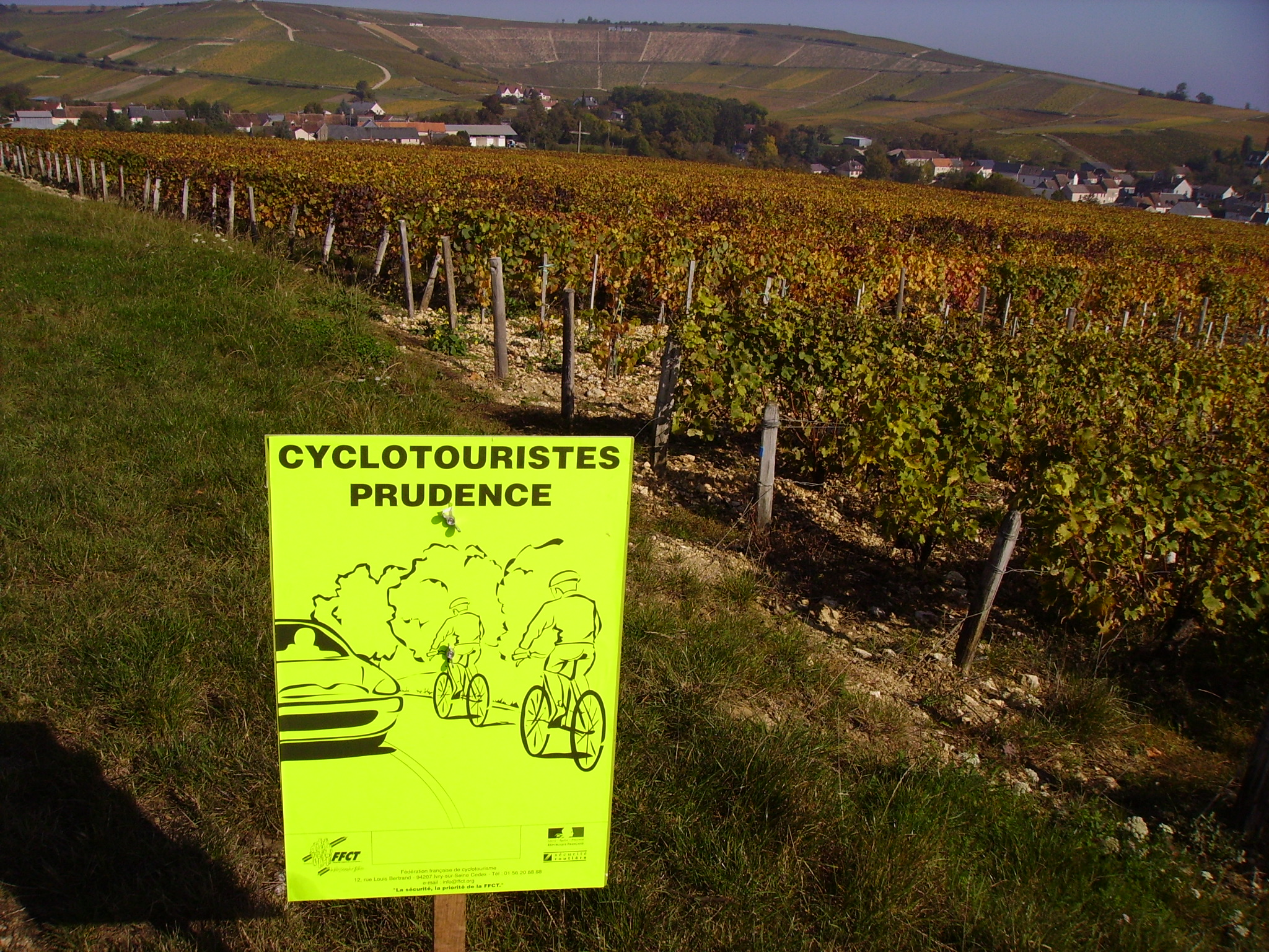 Cirque of the village of Bué (visible in the distance) near Sancerre. Photo taken during the 30th edition of the Vineyard rally (in 2007).